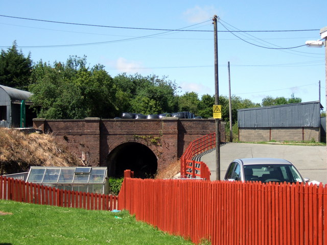 Tunnel at Crymych station It must have been a thrill to see the Cardigan to Whitland train emerging from this tunnel right into the station at this point. Now it has become the backdrop to greenhouses and a duckpond, someone having made imaginative use of the old cutting.